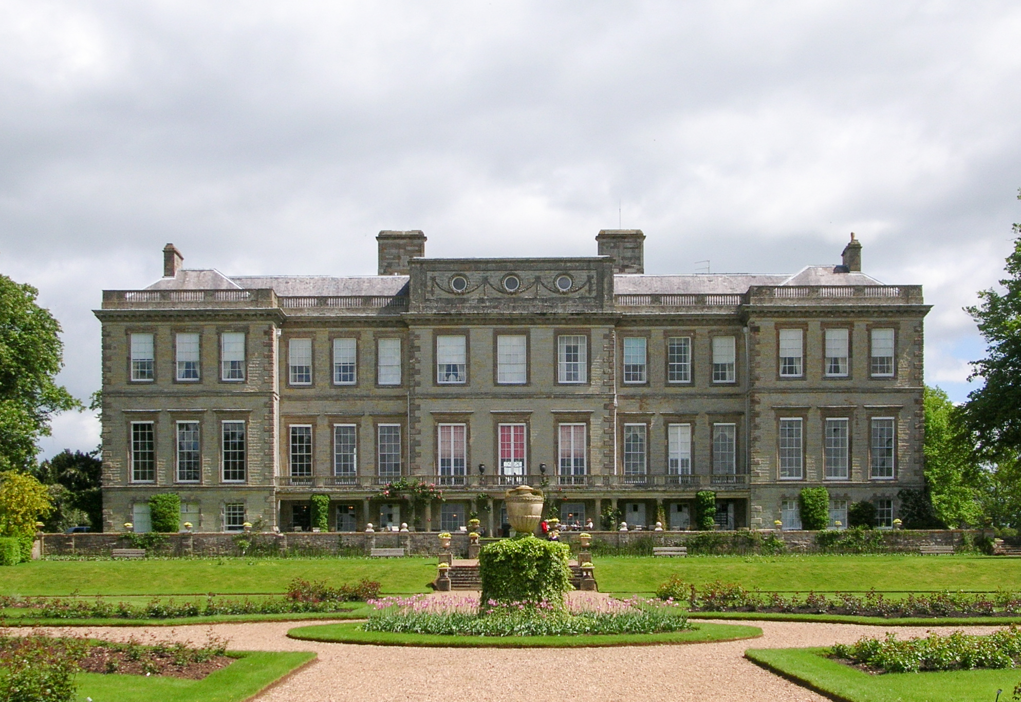 Ragley Hall, Alcester, Warwickshire - viewed from the south-west. This is a Grade I Listed Building in England.